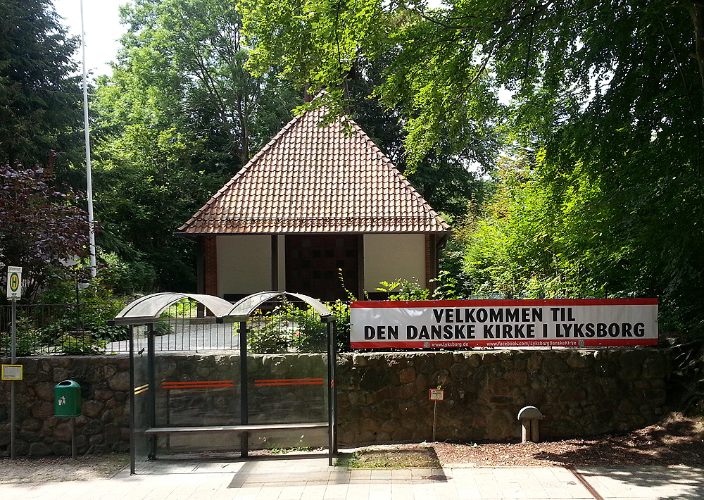 The Danish Church in Lyksborg (Glücksburg), picture from late summer 2015.